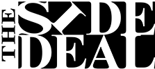 The official The SIDE DEAL logo (2018)